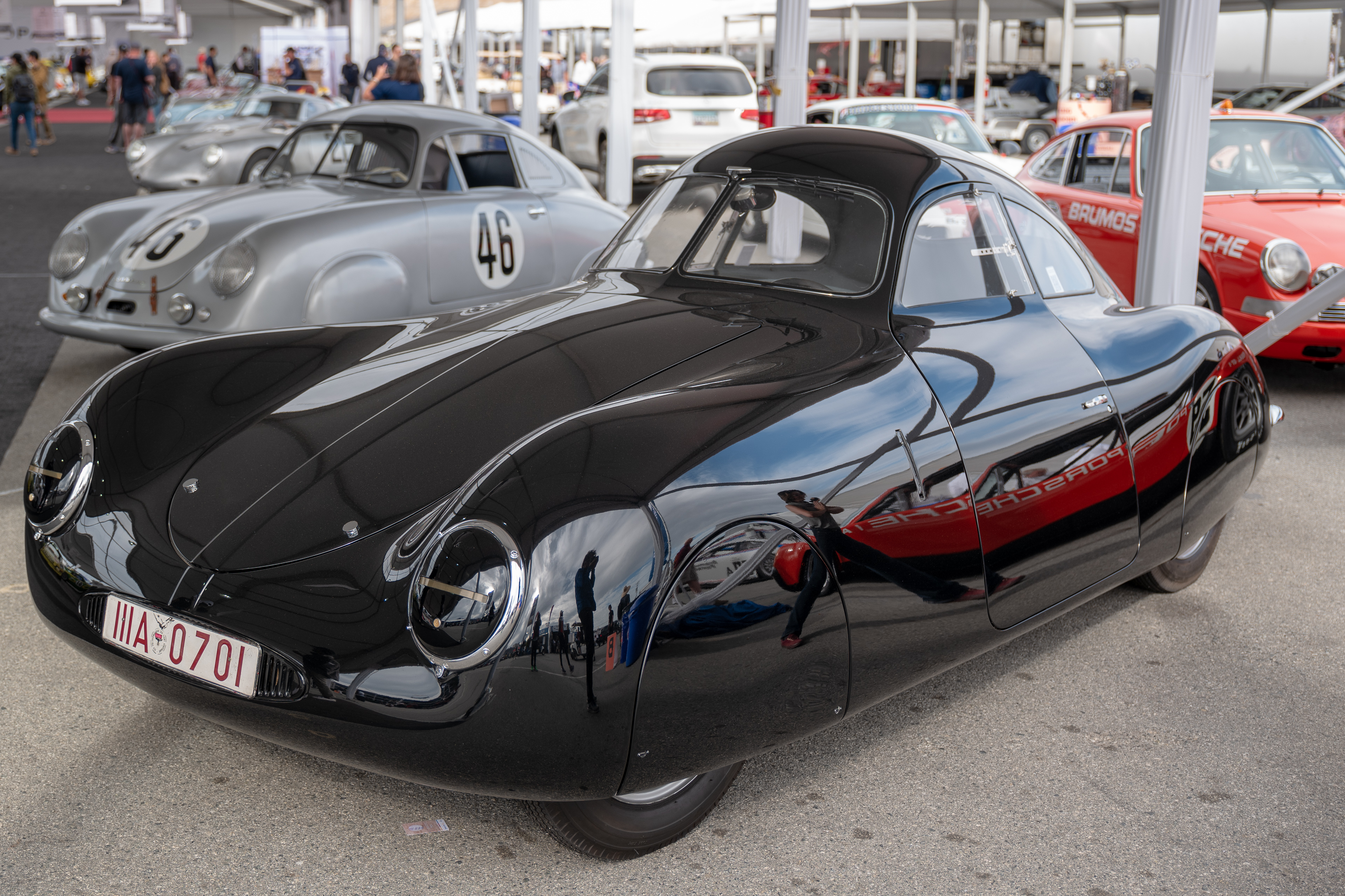 Porsche Typ 64 at the Porsche Rennsport Reunion in Monterey, California on 30 September 2018